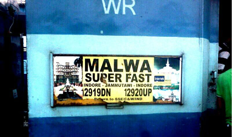 Name Plate of Malwa Express run between Indore and Jammu Tawi